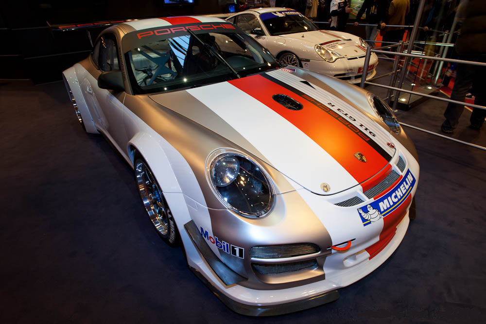 Porsche 997 GT3 R with Porsche Motorsport livery at the Autosport International Show 2010. 911 GT3 R at Autosport International Show 2010